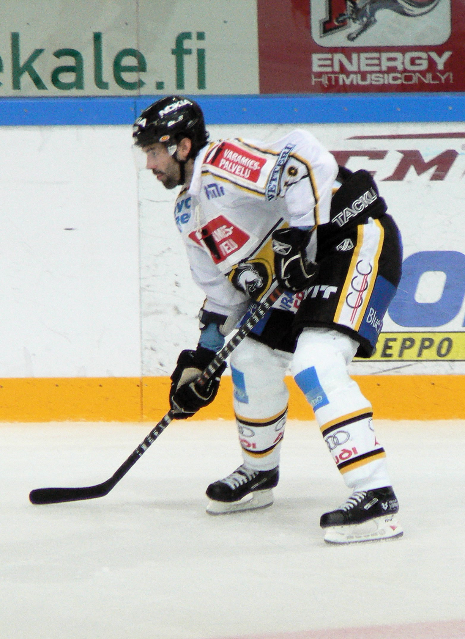 Slovak ice hockey defenceman Ivan Majeský playing for Kärpät Oulu in the Finnish SM-liiga in September 2007